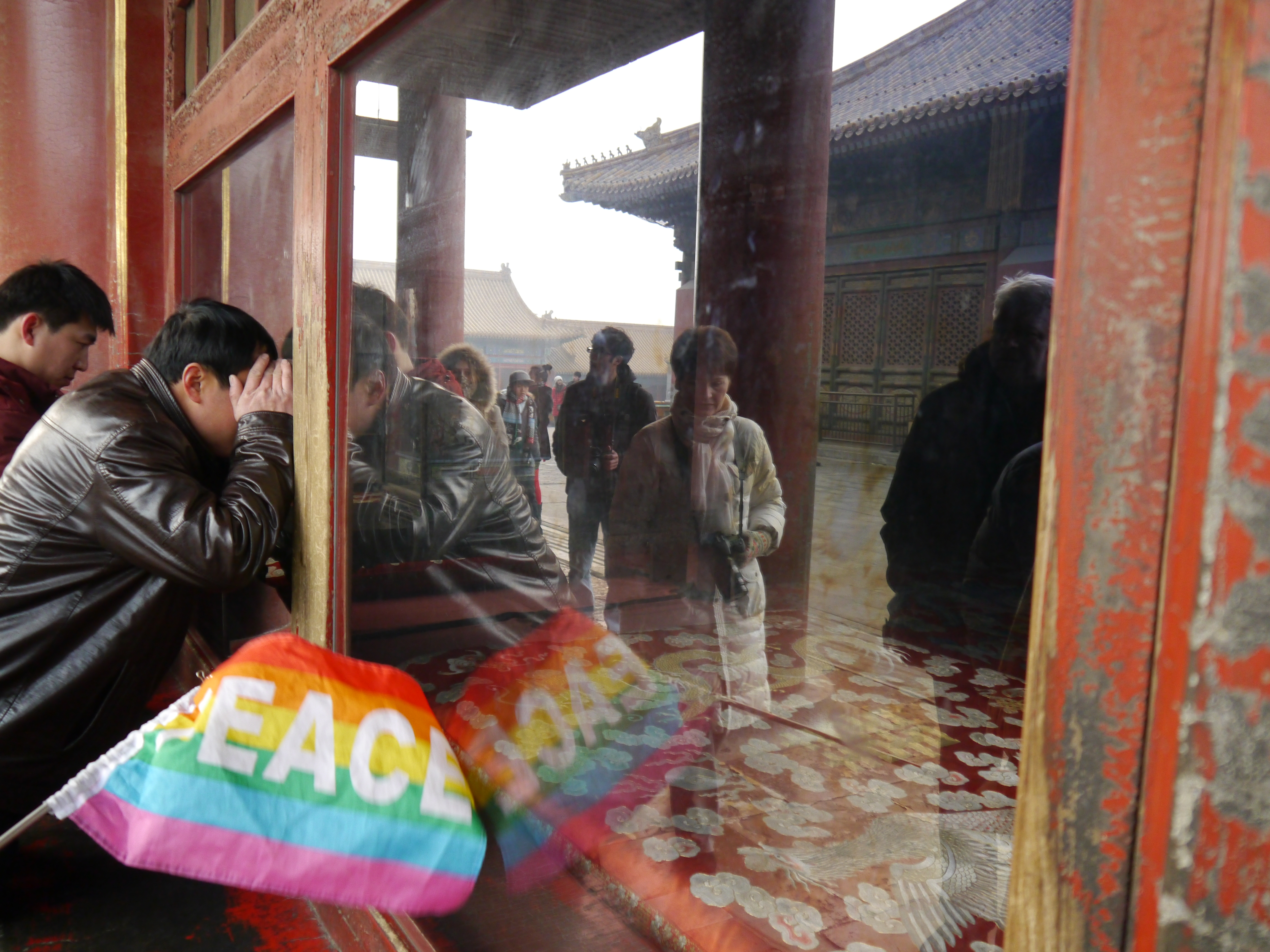 China, Beijing, Forbidden City.